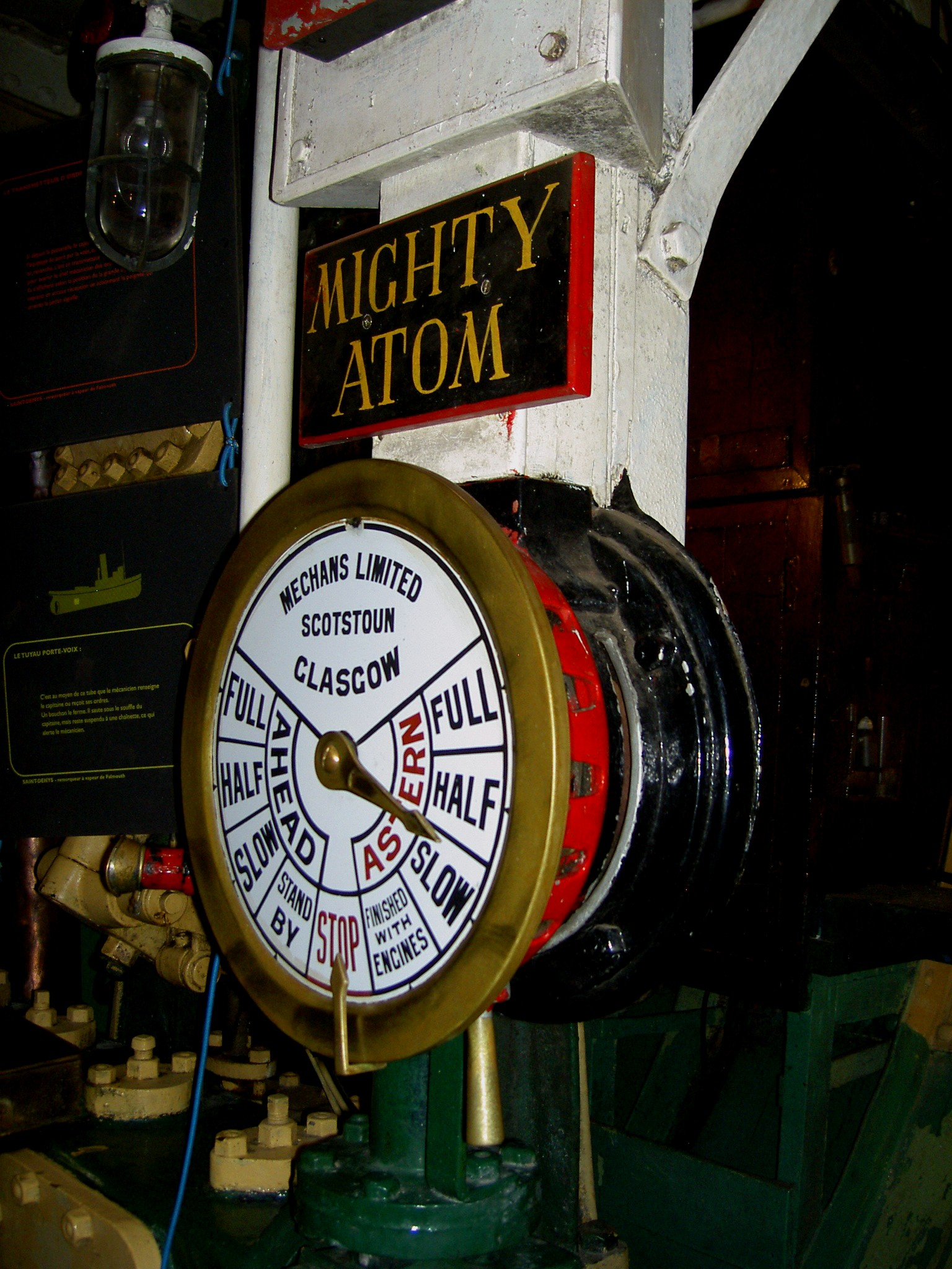 Chadburn of the steam tugboat 'St Denys' of Falmouth (Port-museum of Douarnenez, France).